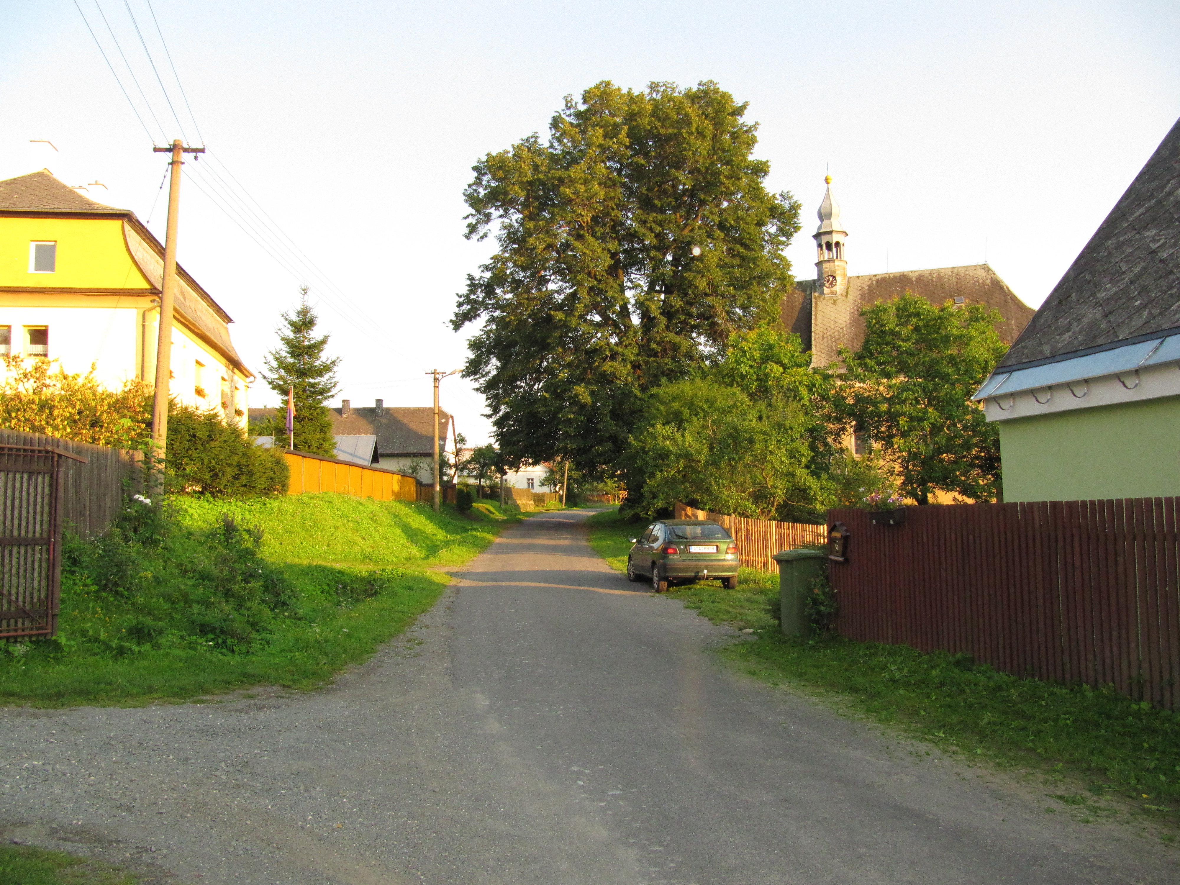 Horní Město in Bruntál District, Czech Republic. Part Rešov. Center.